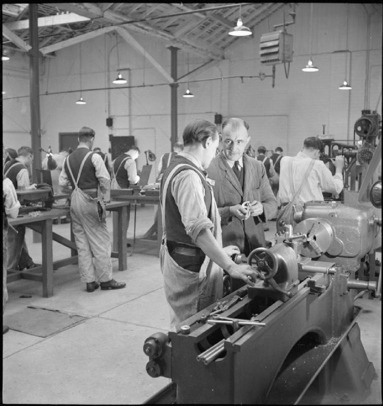 Wakefield Training Prison and Camp- Everyday Life in a British Prison, Wakefield, Yorkshire, England, 1944 In the engineering works at Wakefield Training Prison, inmates are trained in a new trade as part of their rehabilitation and preparation for their return to society. In the foreground, one of the four staff members at the prison explains a point to one of the prisoners.